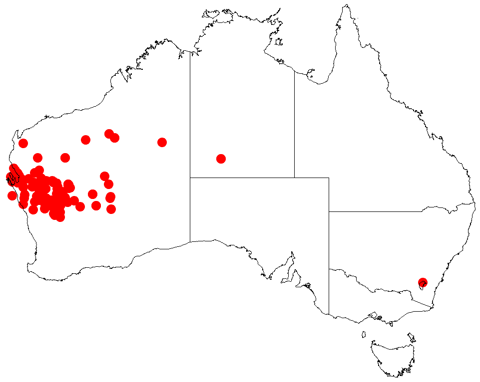 Acacia grasbyi occurrence data from Australasian Virtual Herbarium downloaded from on 8 December 2018